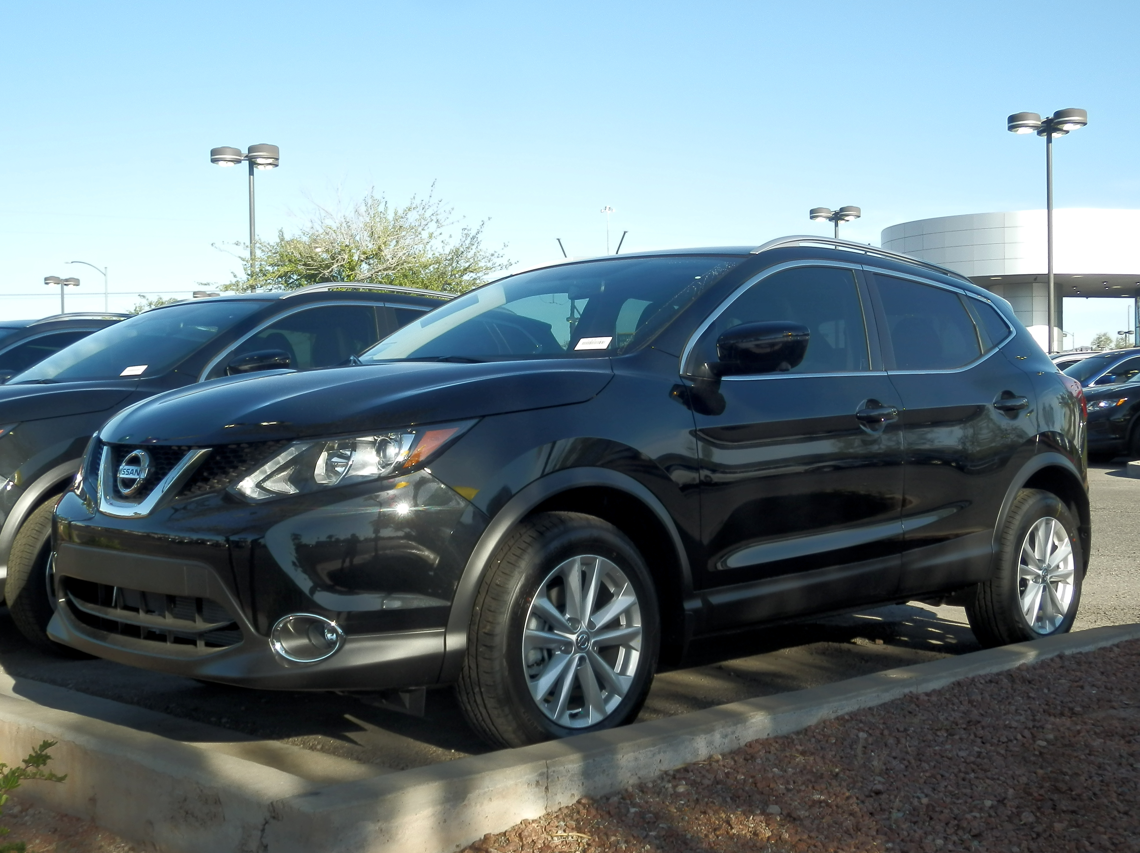 Nissan Rogue Sport in Las Vegas